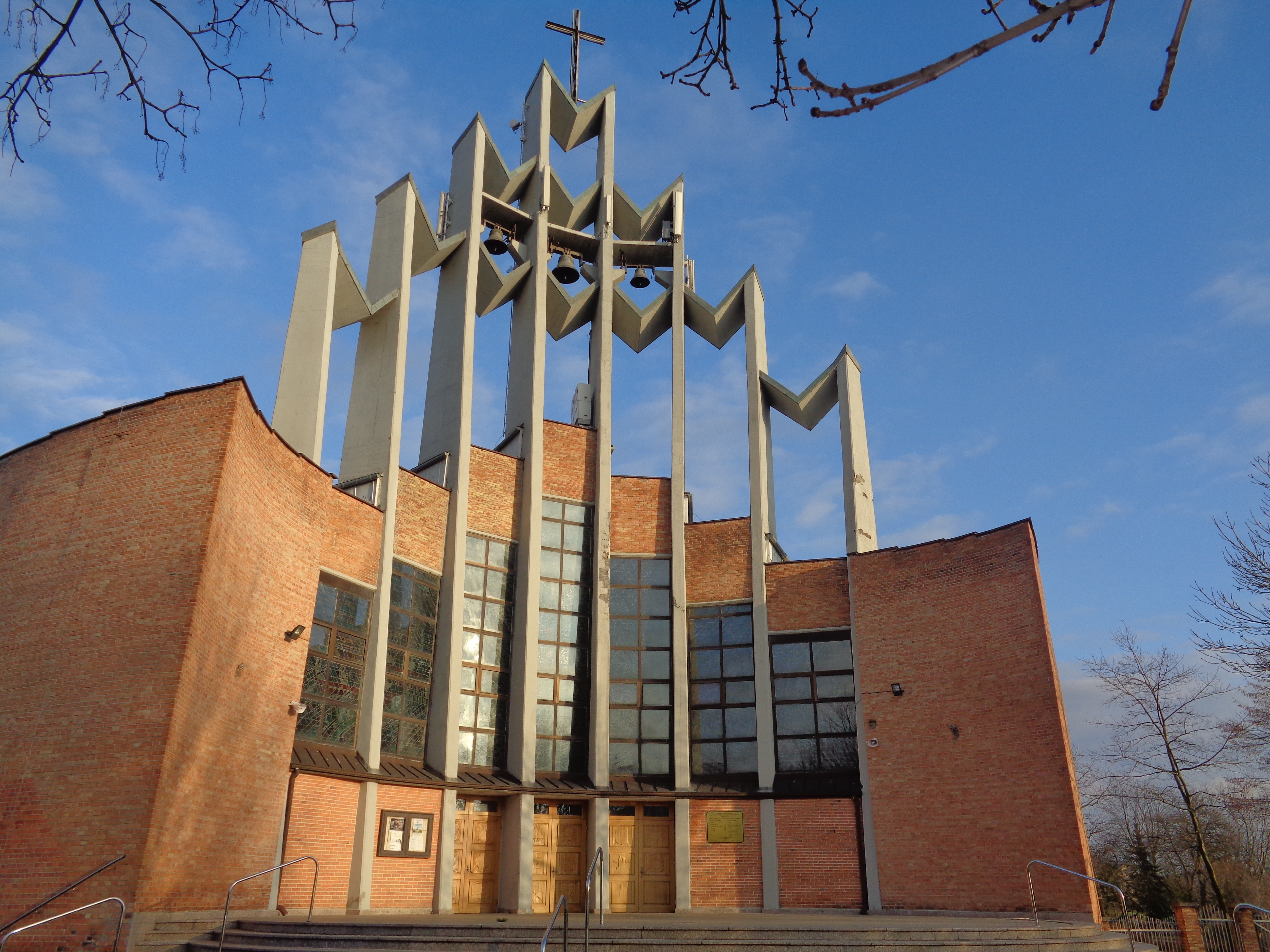 Church of the Saintest Savior in Włocławek.